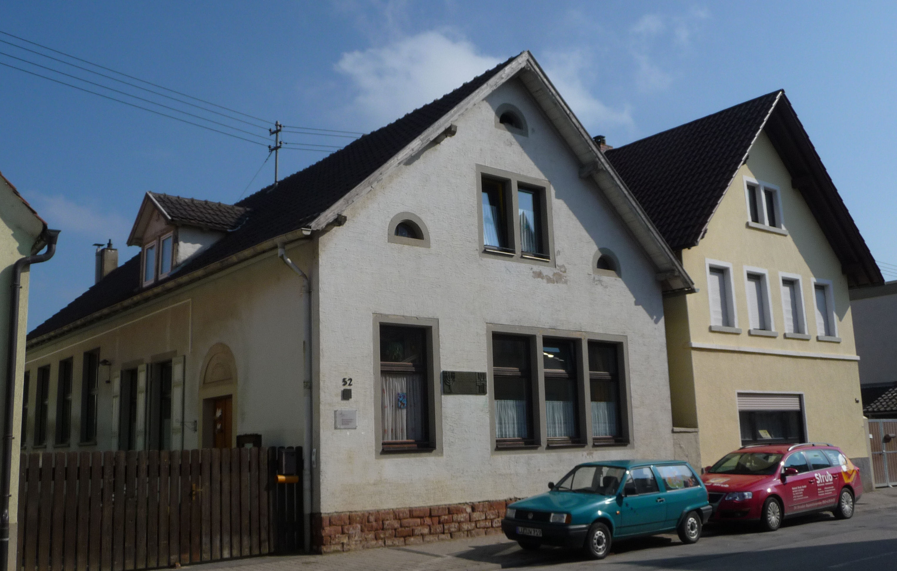 former synagogue in Ludwigshafen-Ruchheim, Germany